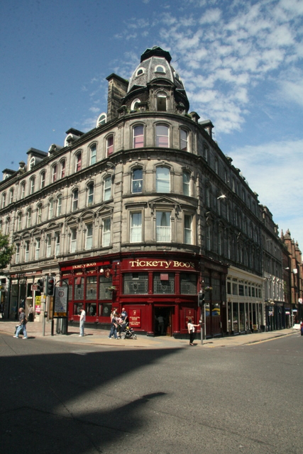 Tickety Boo's On the corner of Commercial Street and Seagate.